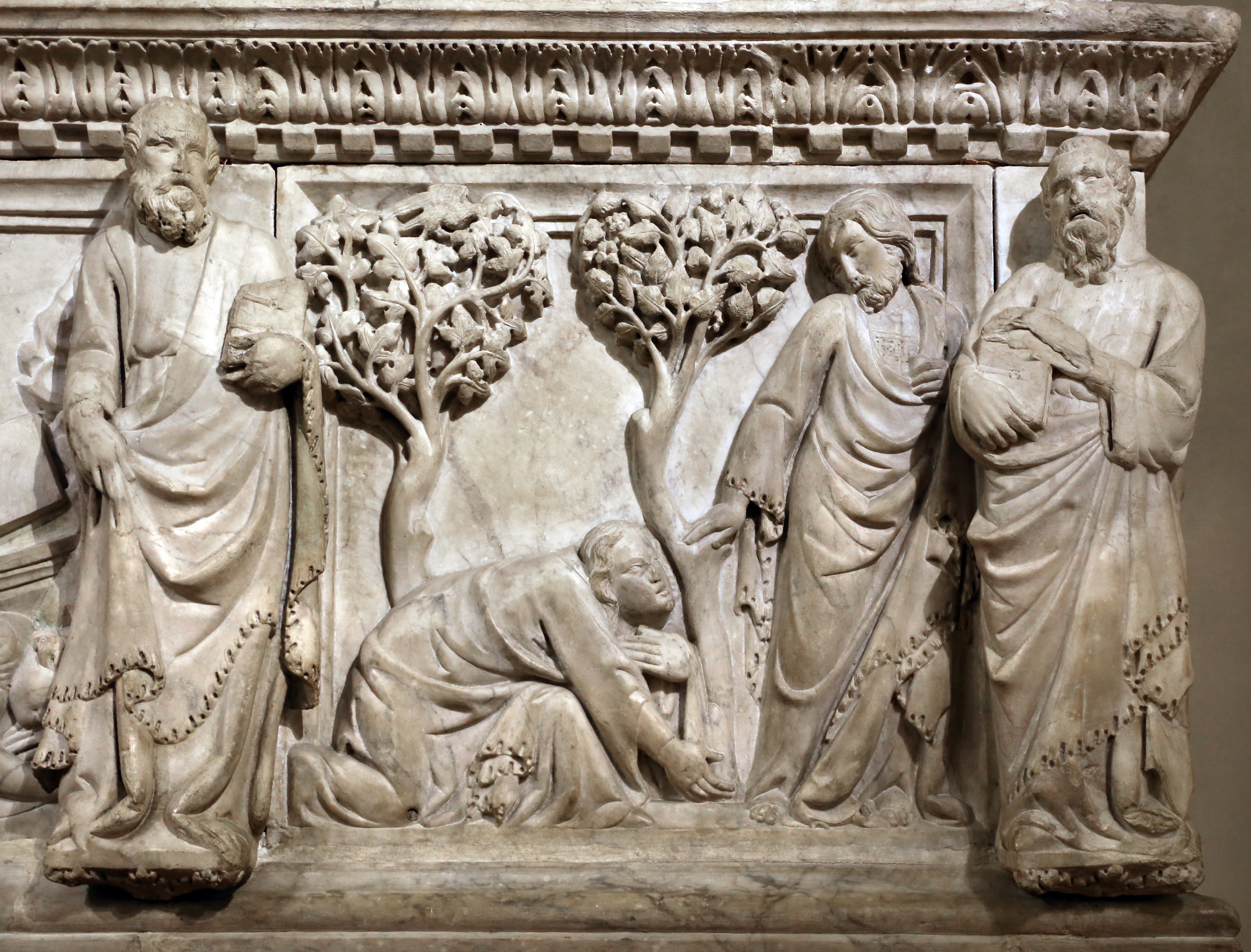 Cassono della Torre tomb